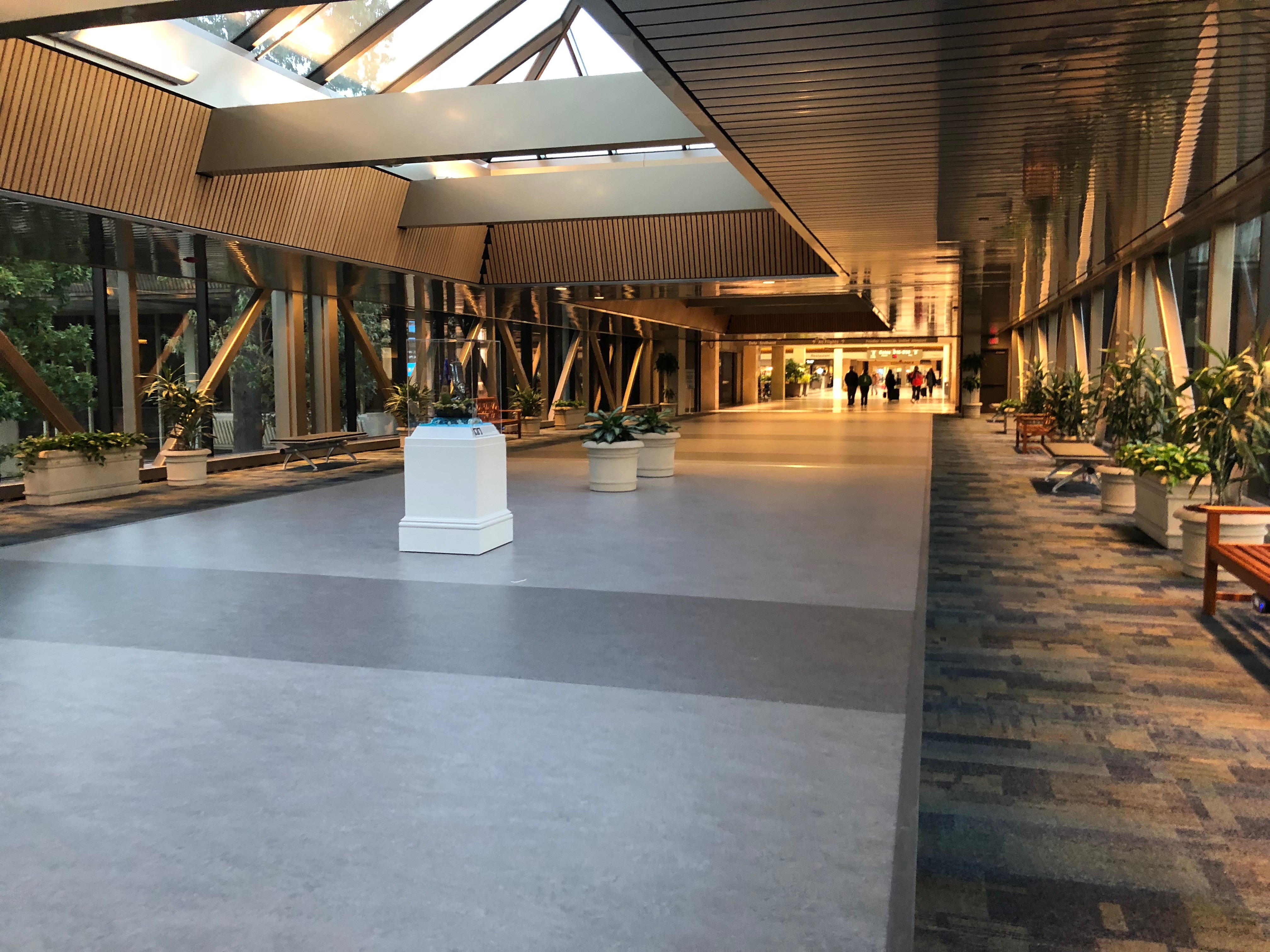 ORF!!